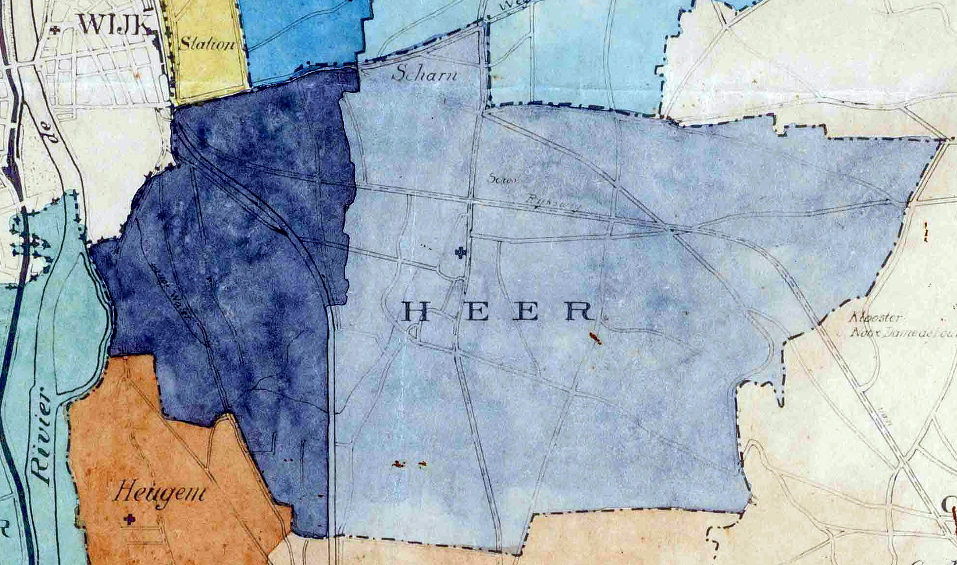 Map of annexation of parts of Heer and other municipalities by the city of Maastricht, Netherlands, in 1920. Collection of RHCL Maastricht, detail of RAL K 171 2.